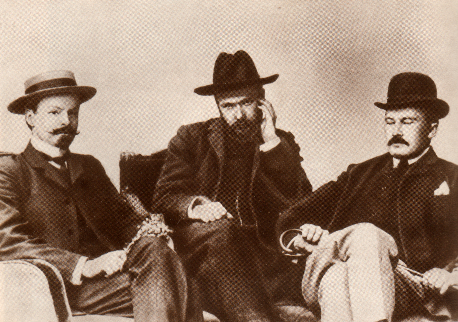 Owners of Grif publishing house. Left: Russian poet Konstantin Balmont.